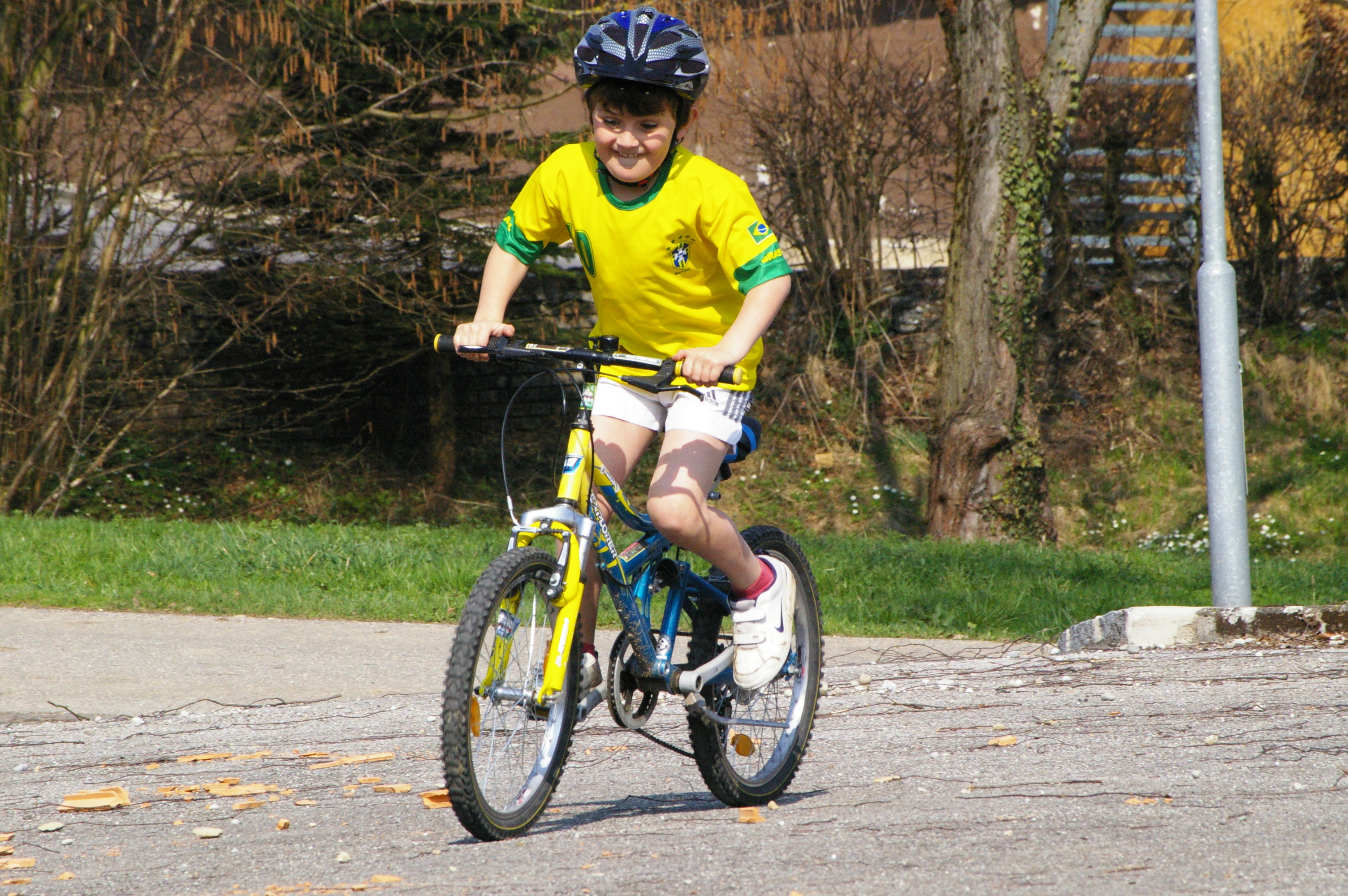 Child cycling